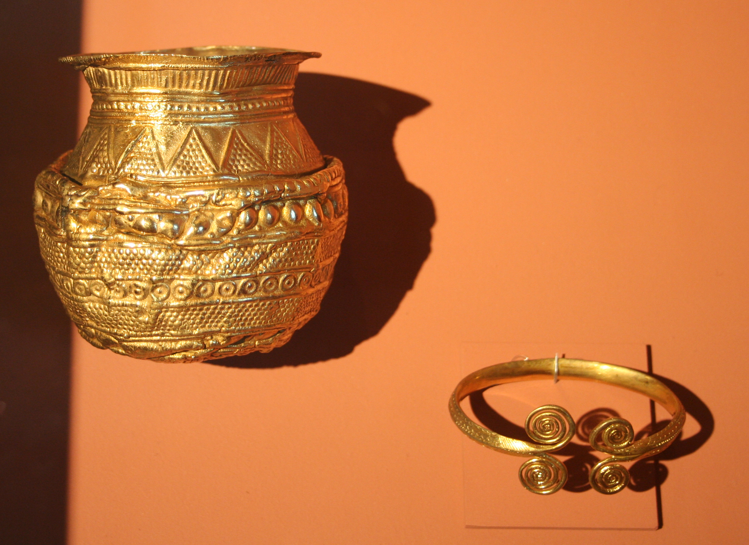 Museum für Vor- und Frühgeschichte (Museum of prehistory and early history), Berlin